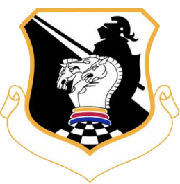 Emblem of the 347th Tactical Fighter Wing